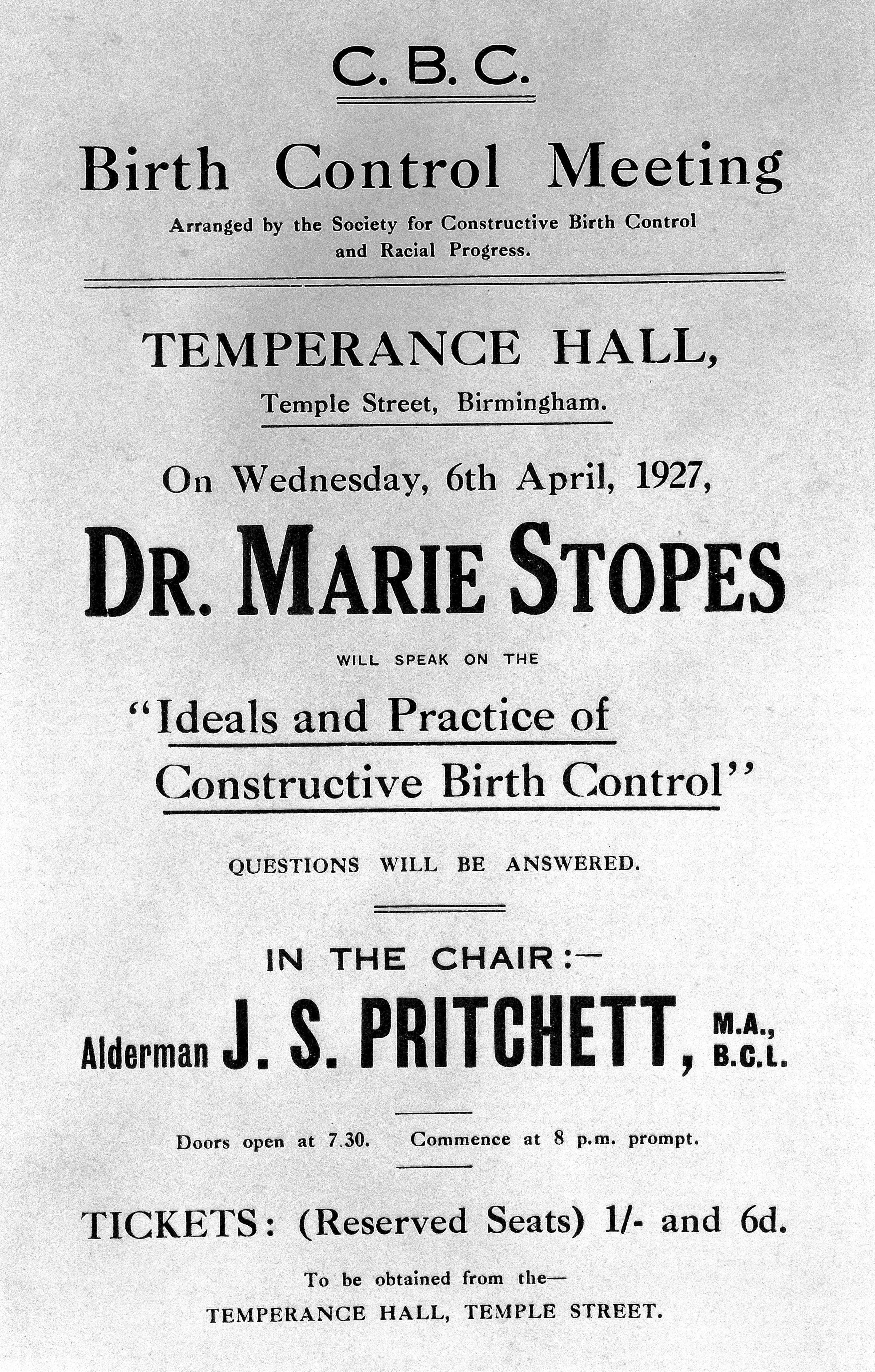 Printed leaflet: advertisement for lecture by Marie Stopes on 'Ideals and practice of constructive birth control', Temperance Hall, Temple St., Birmingham, 6th April, 1927'. Archives & Manuscripts Keywords: cmac; cmac: pp/mcs stopes; stopes, marie carmichael {1880; Marie Carmichael Stopes